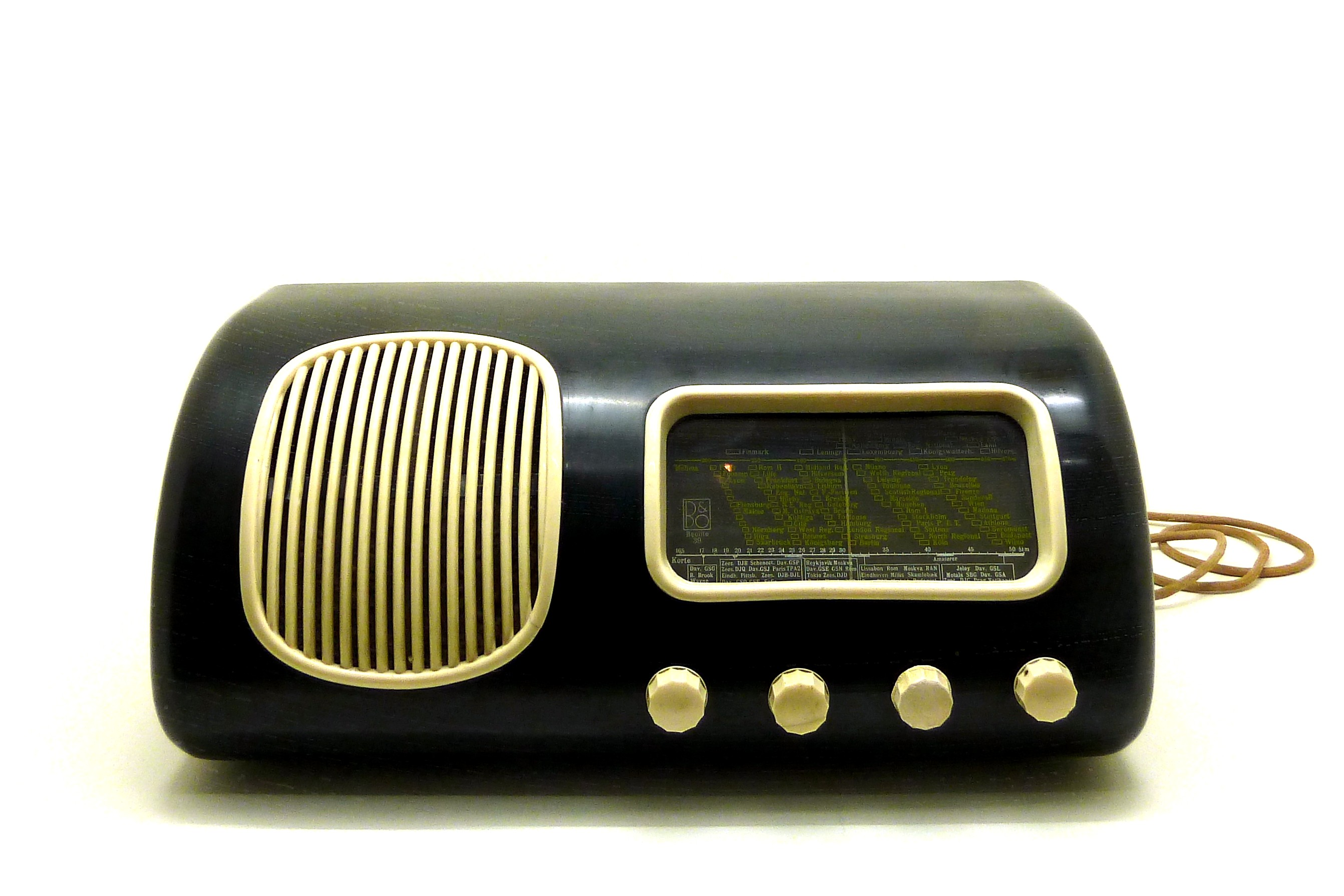 "Beolit 39" radio, 1939, Bang & Olufsen, bakelite and carbamideDansk: "Beolit 39" radio, 1939, Bang & Olufsen, bakelit og carbamid